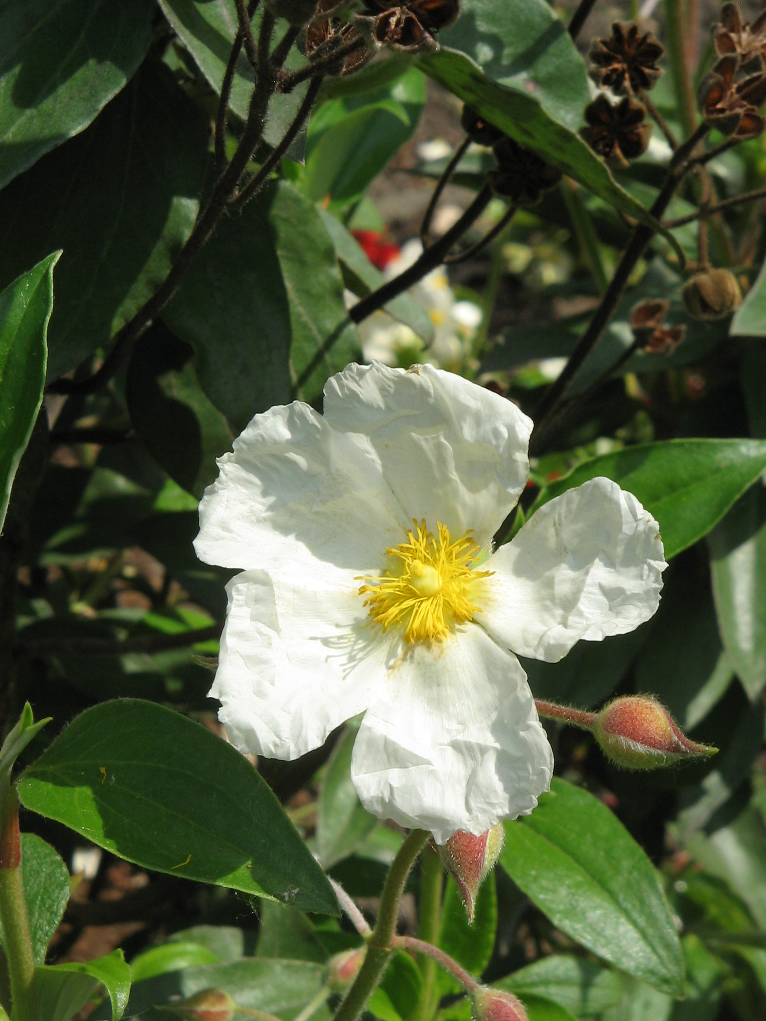 Cistus laurifolius